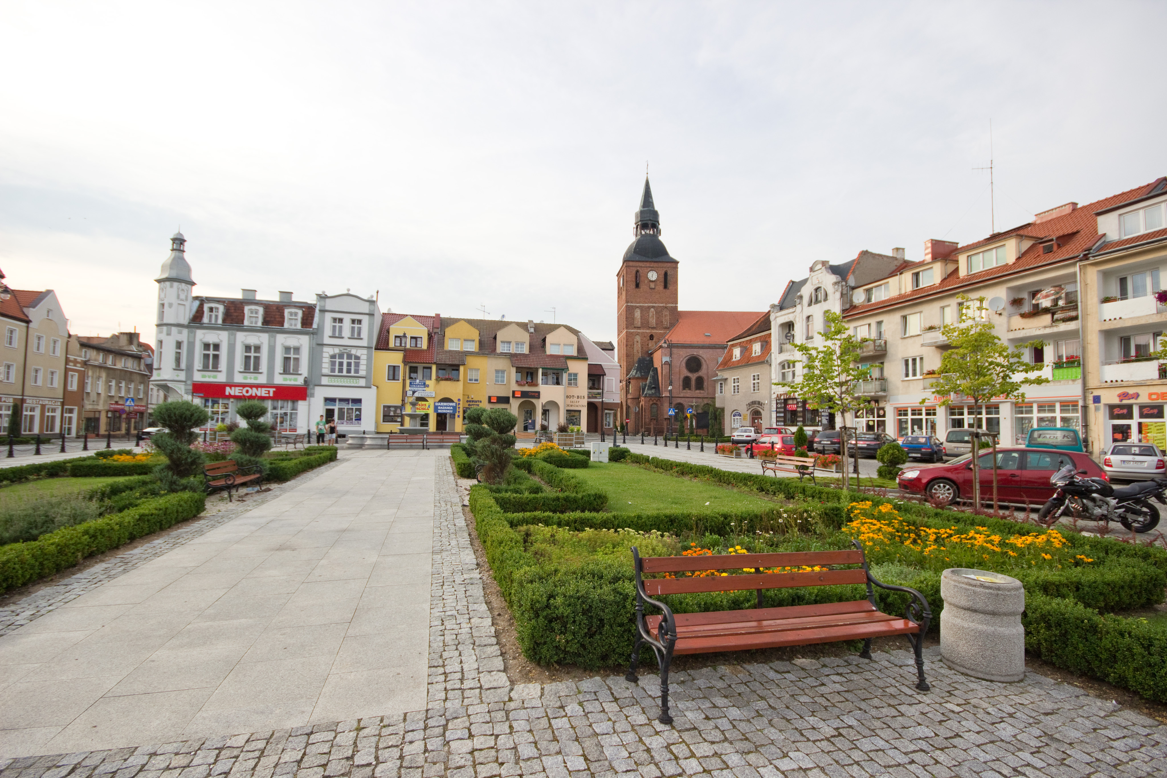 Square, Biskupiec, gmina Biskupiec, powiat olsztyński, Warmian-Masurian Voivodeship